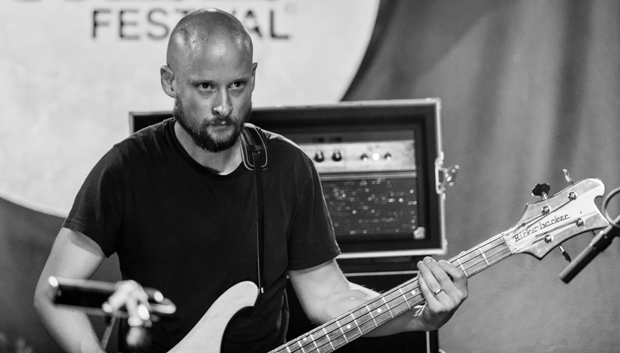 Rune Nergaard in a concert with Exoterm in Energimølla. The concert was part of Kongsberg Jazzfestival and took place on 06. July 2019 in Kongsberg. Lineup:Kristoffer Berre Alberts (saxophone)Nels Cline (guitar)Rune Nergaard (bass guitar)Jim Black (drums)